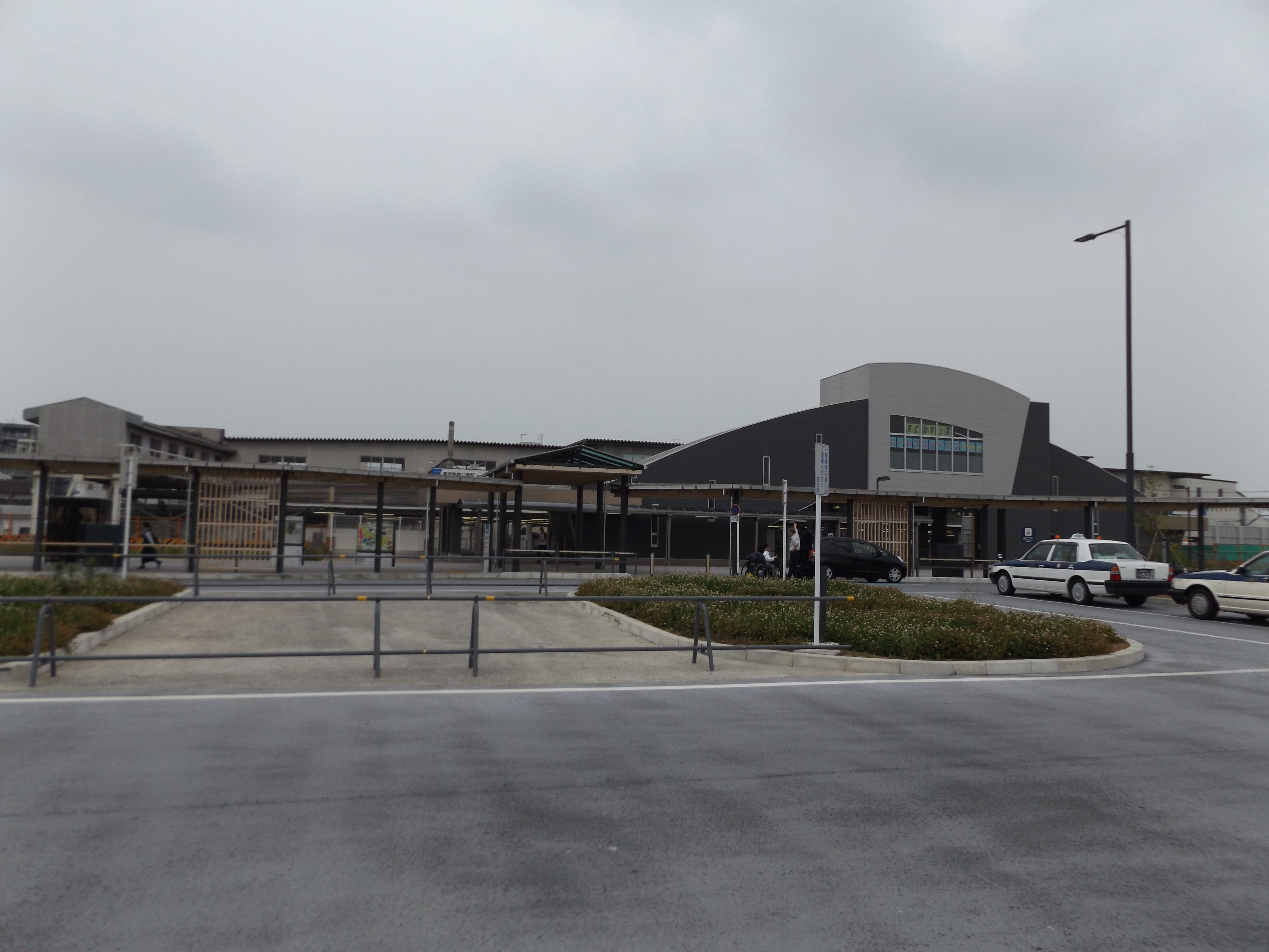 The west side of Tōbu-Dōbutsu-Kōen Station in Saitama Prefecture, Japan